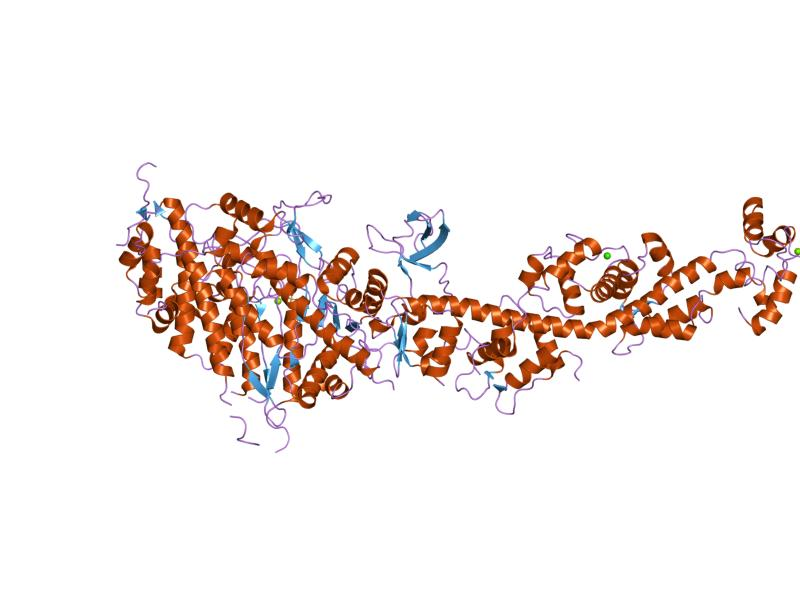 Cartoon representation of the molecular structure of protein registered with 1kk7 code.